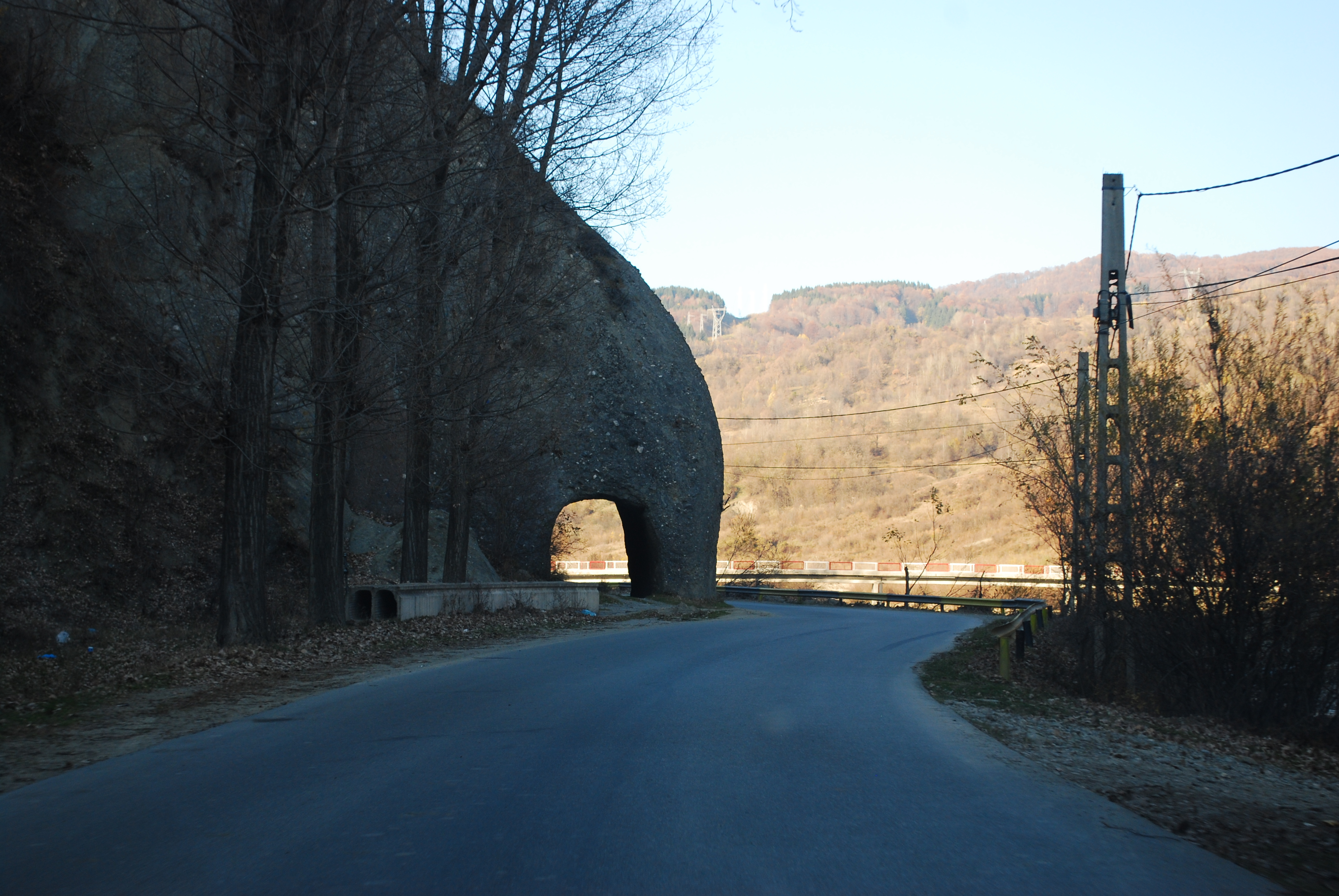 County road DJ102L on Doftana river valley, Prahova County, Romania